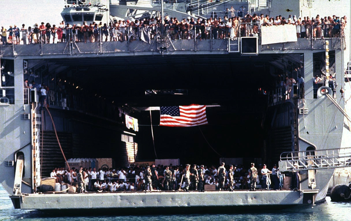 Original caption: "USS Whibdey Island with 2000 Cubans picked up at sea."